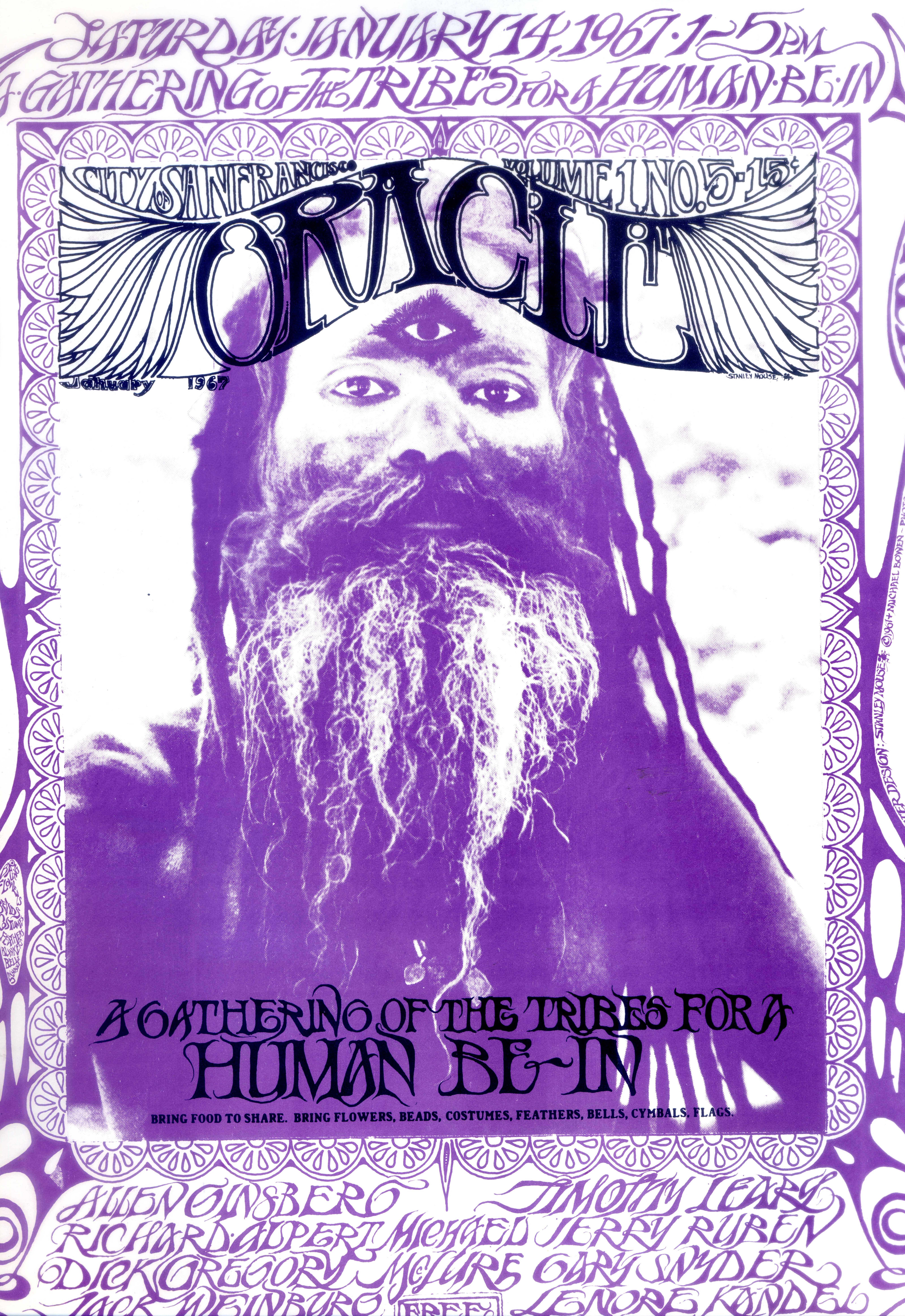 Cover of the San Francisco Oracle, Volume 1 No.5. From Facsimile Edition